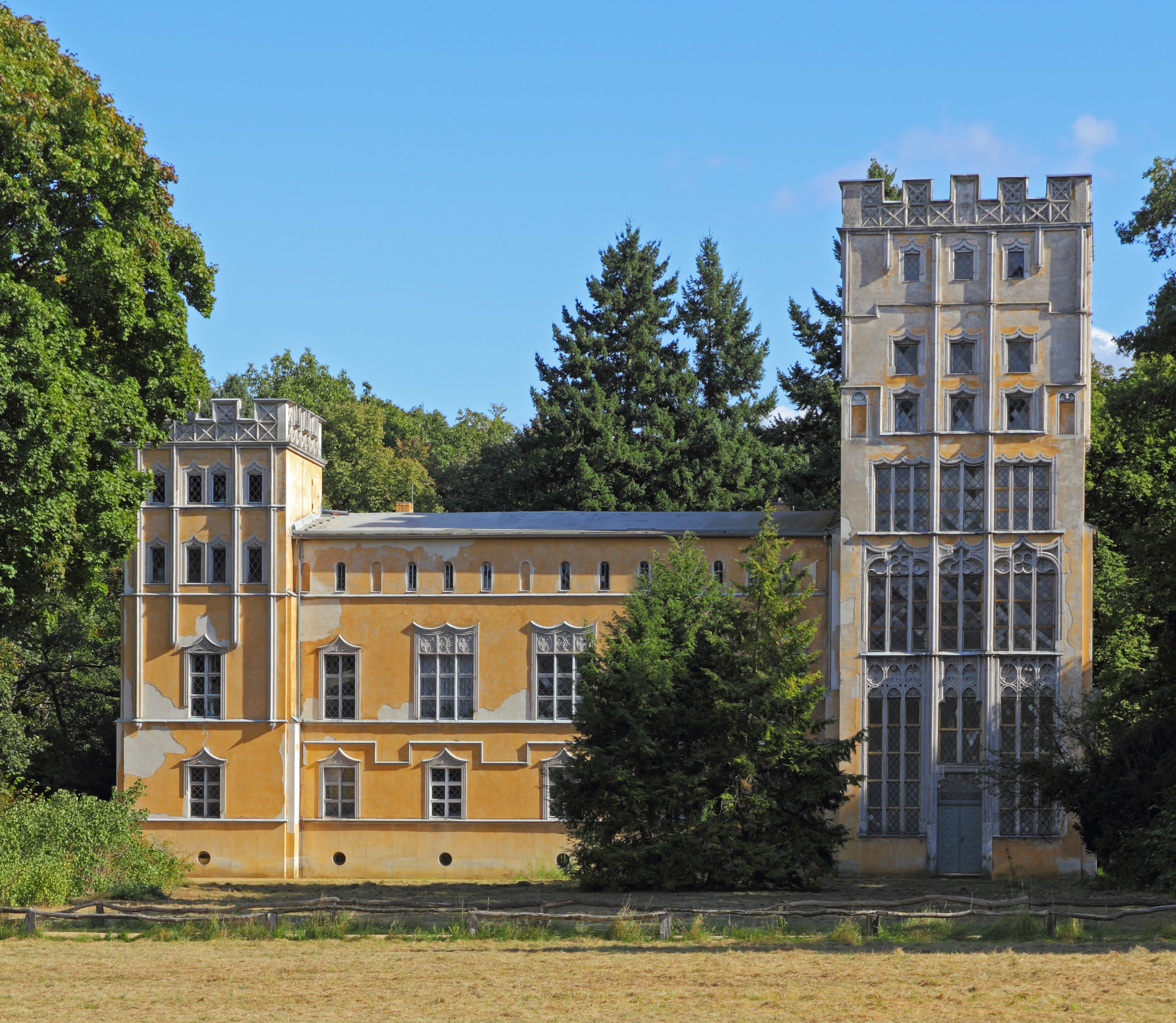 UNESCO World Heritage site „Peacock Island“ in Berlin-Wannsee. The House of Servants.